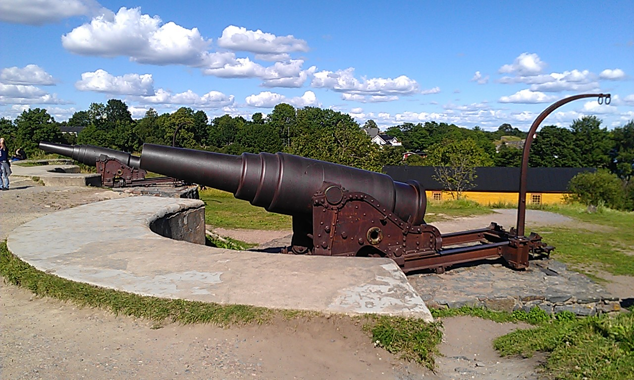 The guns at Suomenlinna